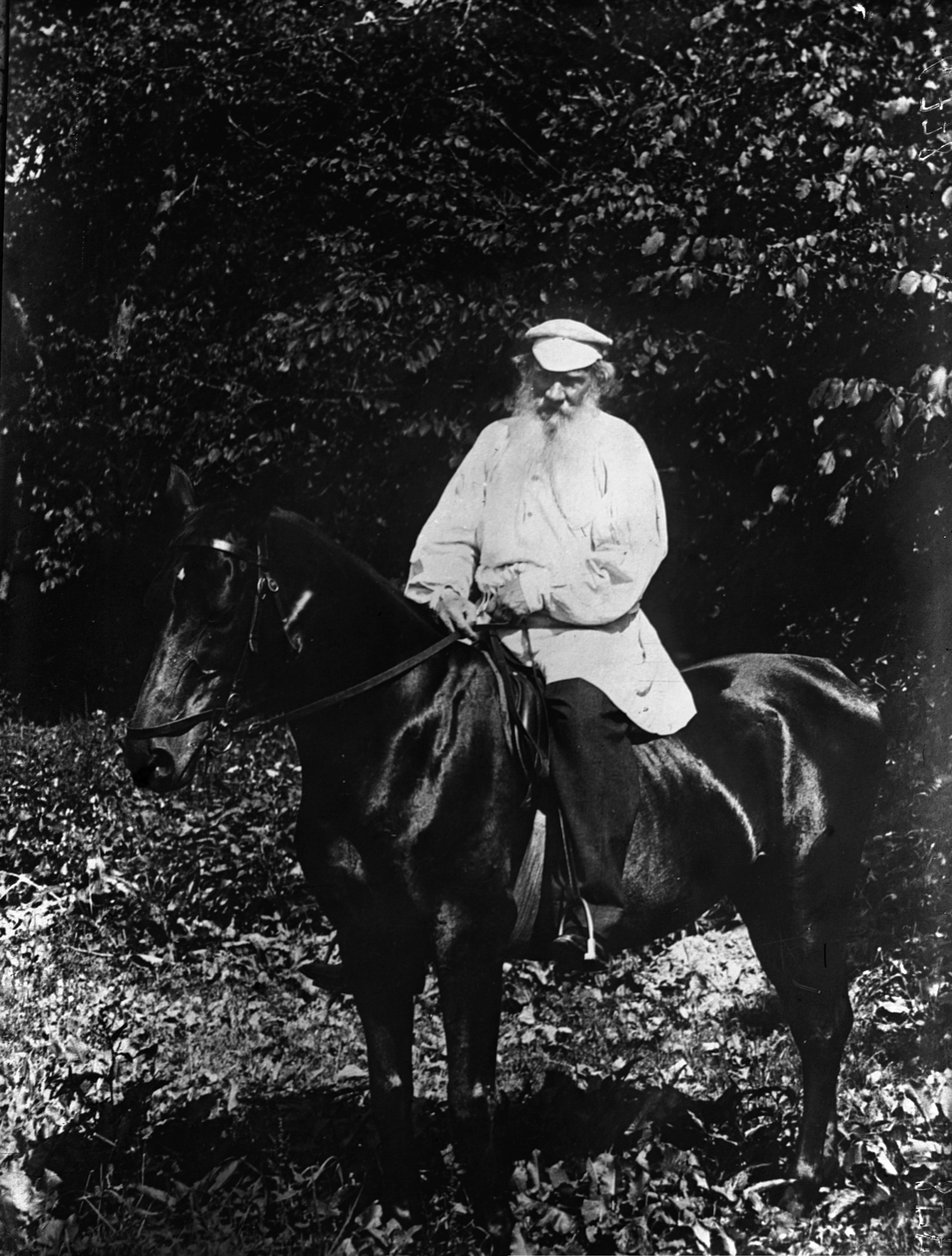 Tolstoy on horse, 1910.